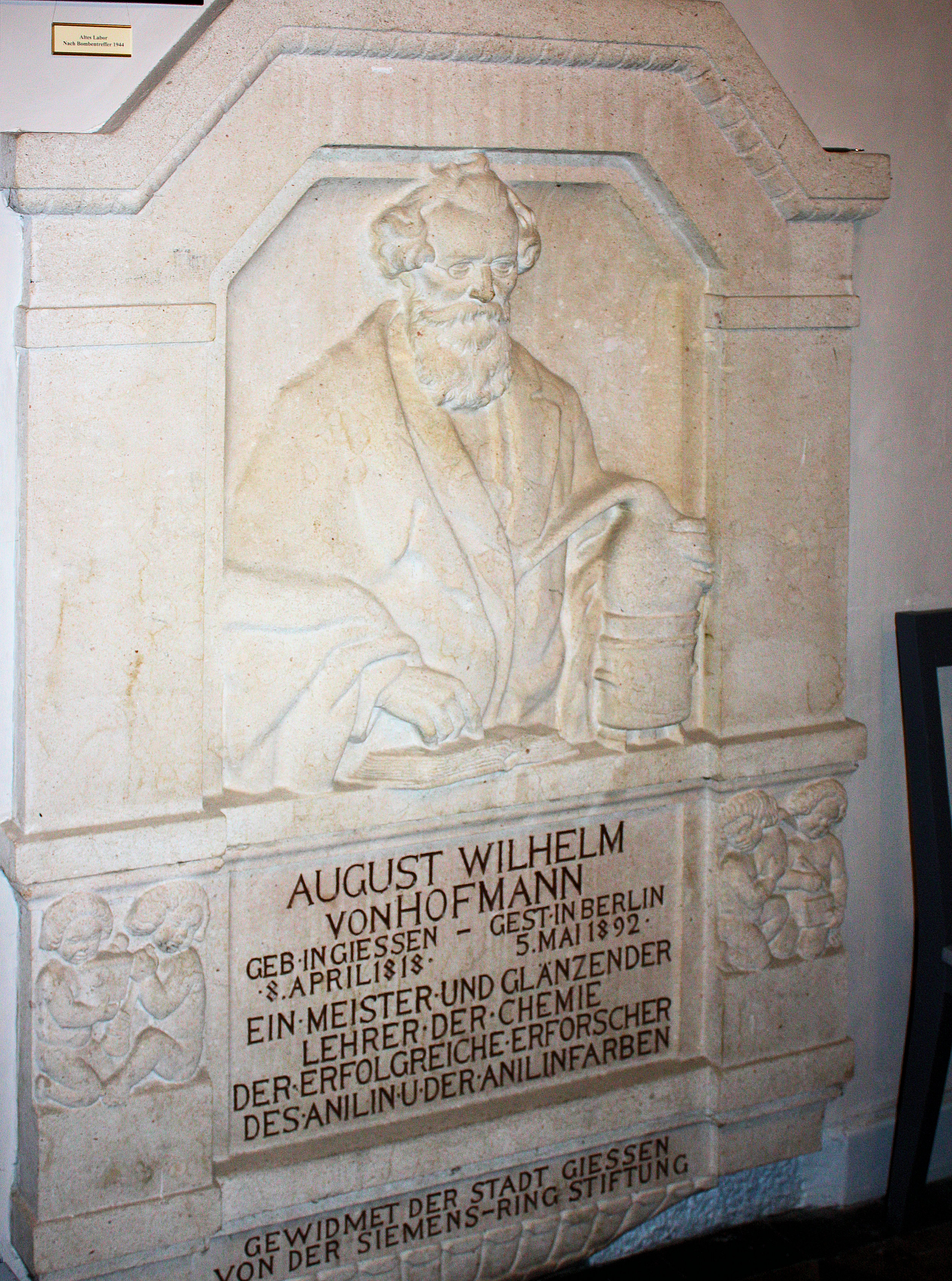 Gießen, Liebig-Museum, monument of August Friedrich von Hofmann